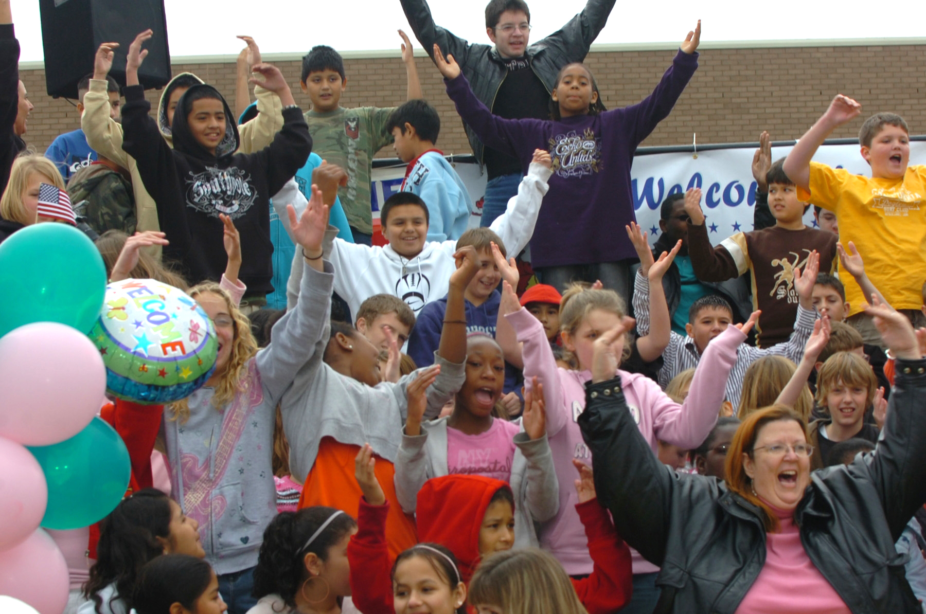 Students from the H.G. Isbill Junior High School in McGregor, Texas dance to The Village People's "Y.M.C.A." during a 1st Cavalry Division home coming ceremony held at Cooper Field Jan. 16. The sixth-grade class won a trip to Fort Hood as a part of a school contest that supported Soldiers.